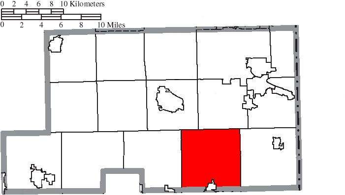 Map of the municipal and township boundaries of Mahoning County, Ohio, United States, as of the 2000 census, with the location of Beaver Township highlighted. Township borders are shown only in unincorporated areas in order to differentiate incorporated and unincorporated areas more clearly.